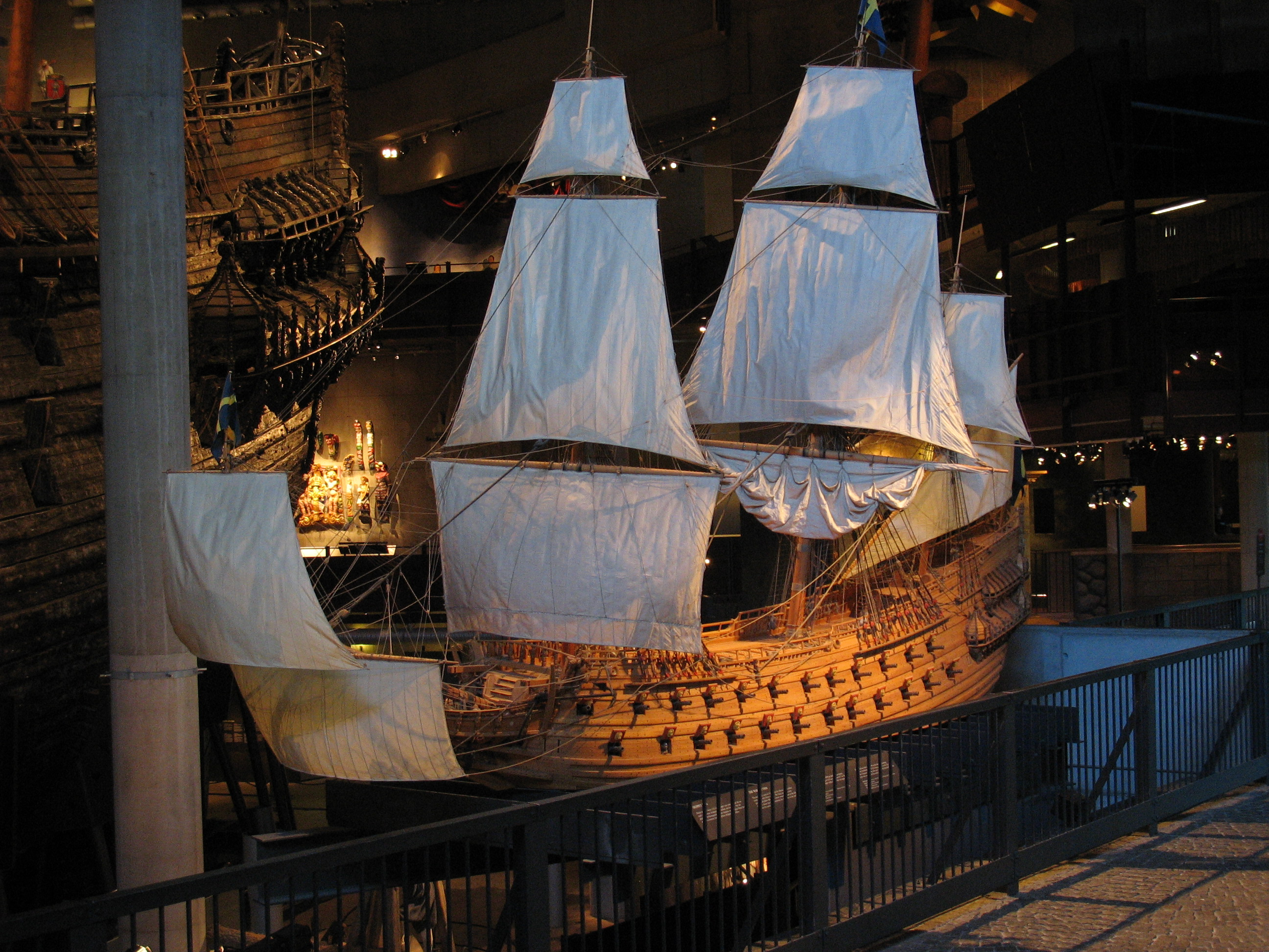 A model of the 17t century warship Vasa on display at the Vasa Museum with the actual ship in the background.